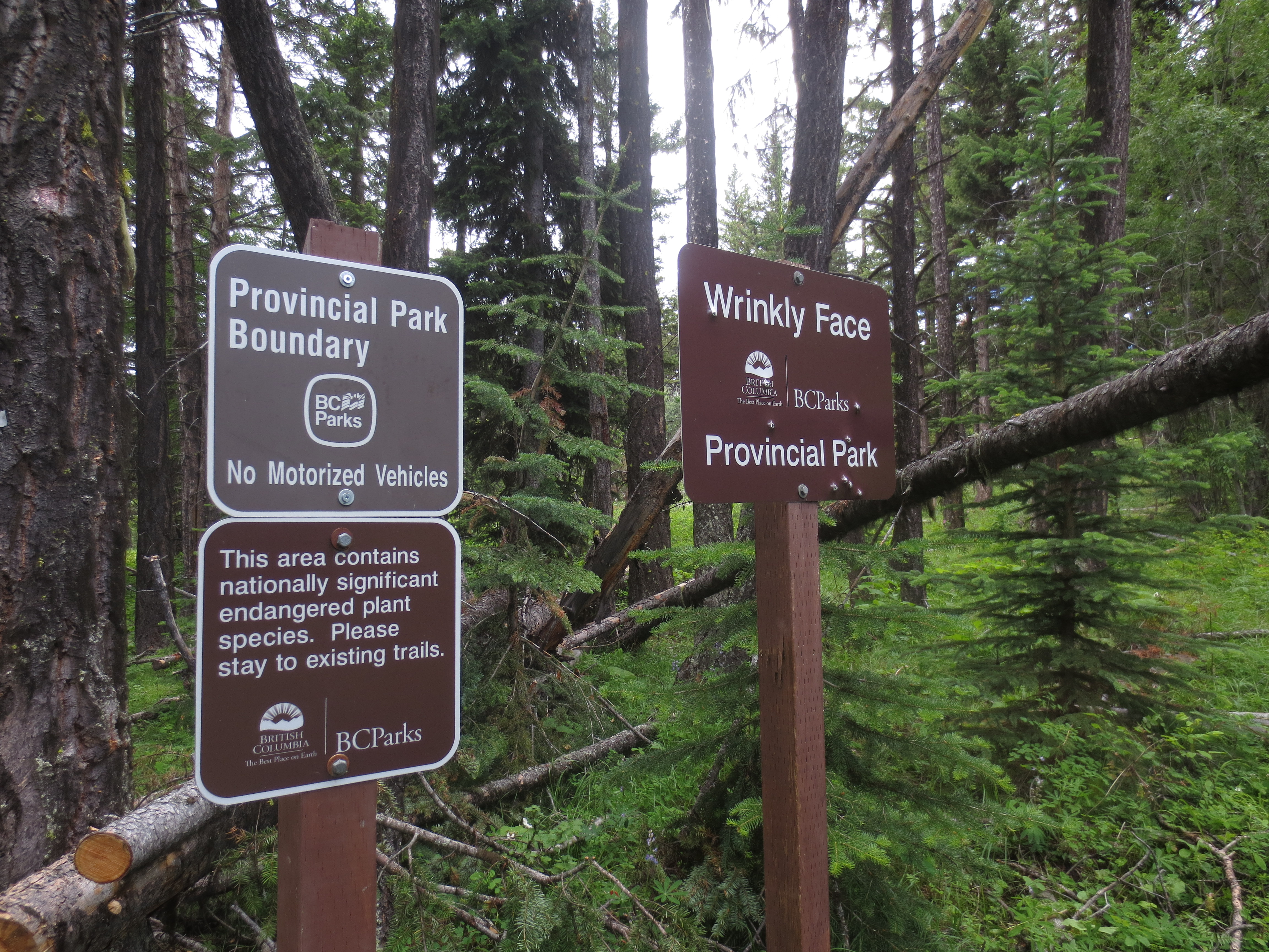 Southern Boundary Signs for Wrinkly Face Provincial Park. British Columbia, Canada